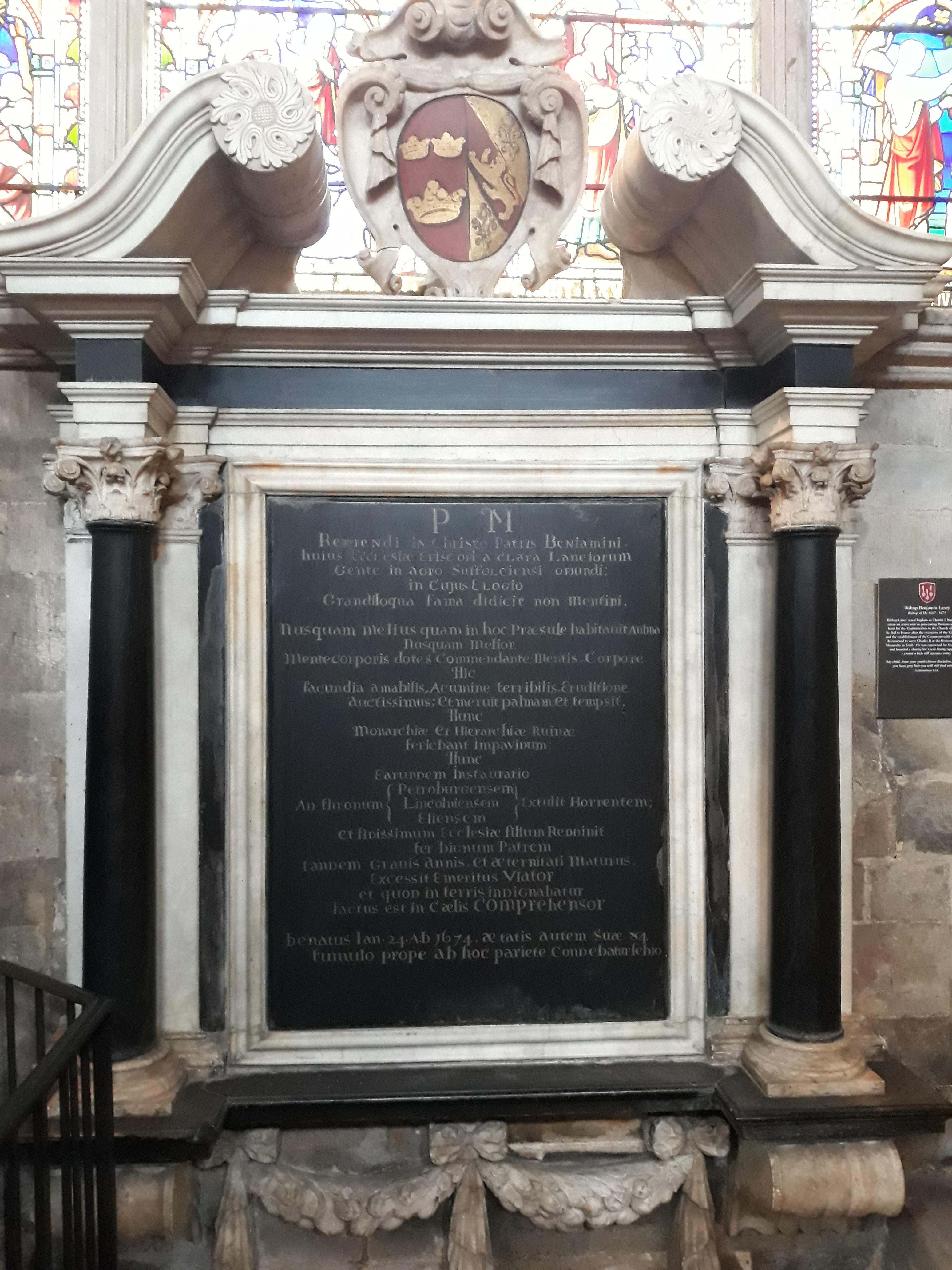 Ely Cathedral, Cambridgeshire, England.